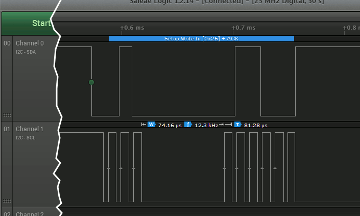 I²C transmission (excerpt: start condition and adressing), the via bit banging controlling processor services an interrupt after the third bit.